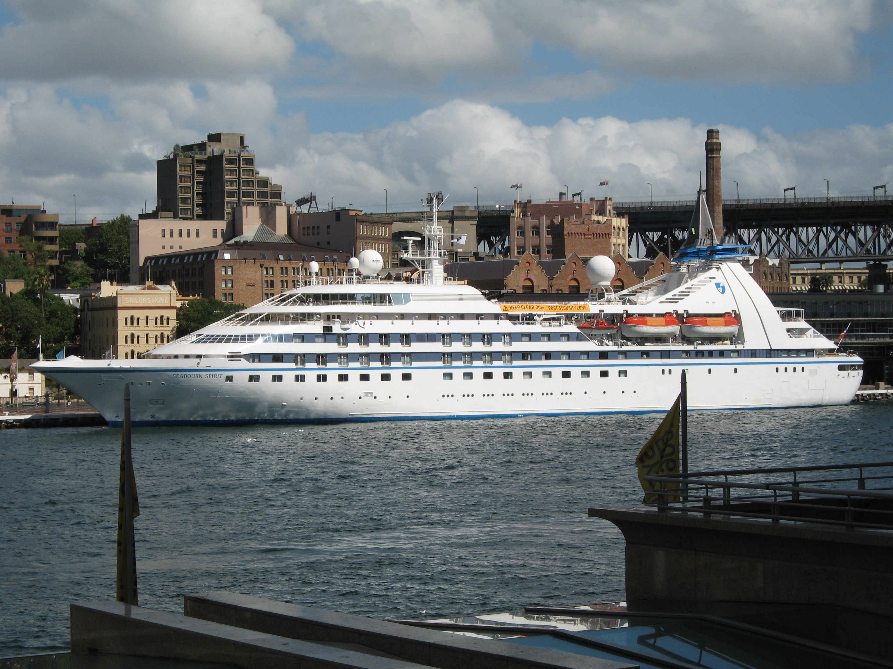 The Seabourn Spirit, berthed at the Overseas Passenger Terminal {this is NOT Sydney Cove}, Sydney, Australia.